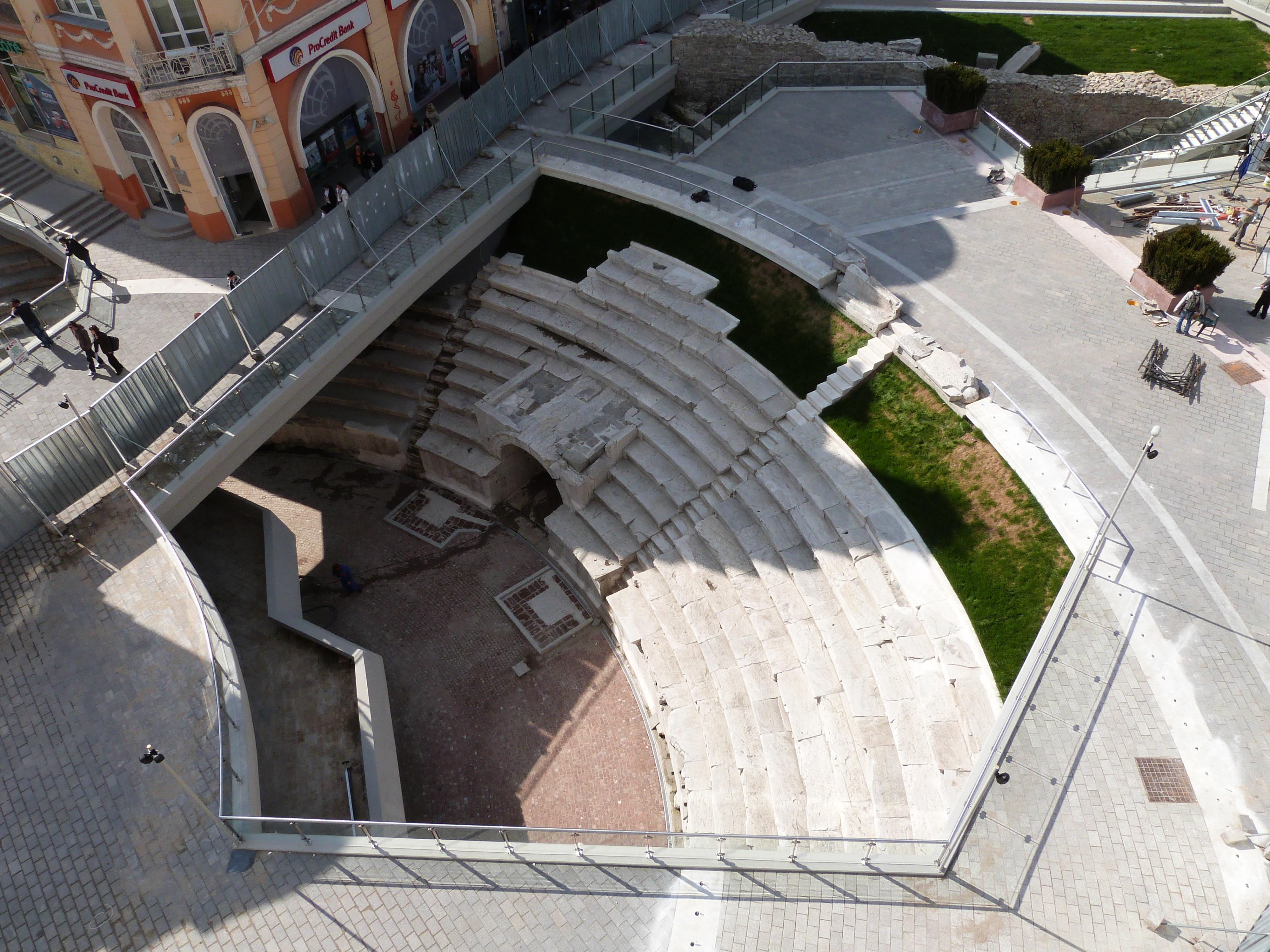 The Ancient Stadium in Plovdiv, Bulgaria - Dzhumaya square and the Ancient Stadium - view from above